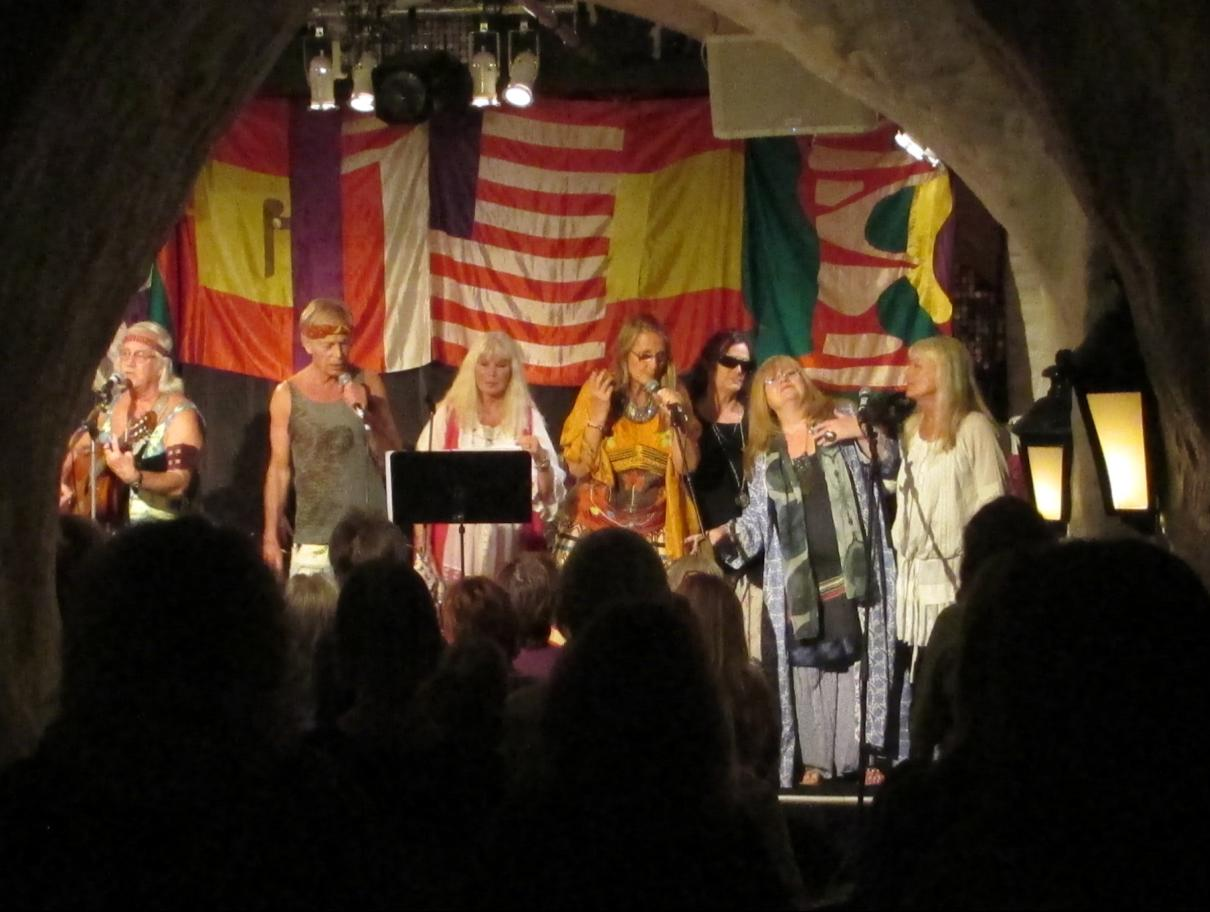 Pyret Moberg, Bill Öhrström, Anna-Bella Munther, Jane Sannemo et alPlace: Kolingen, Kornhamnstorg, Stockholm, Sweden